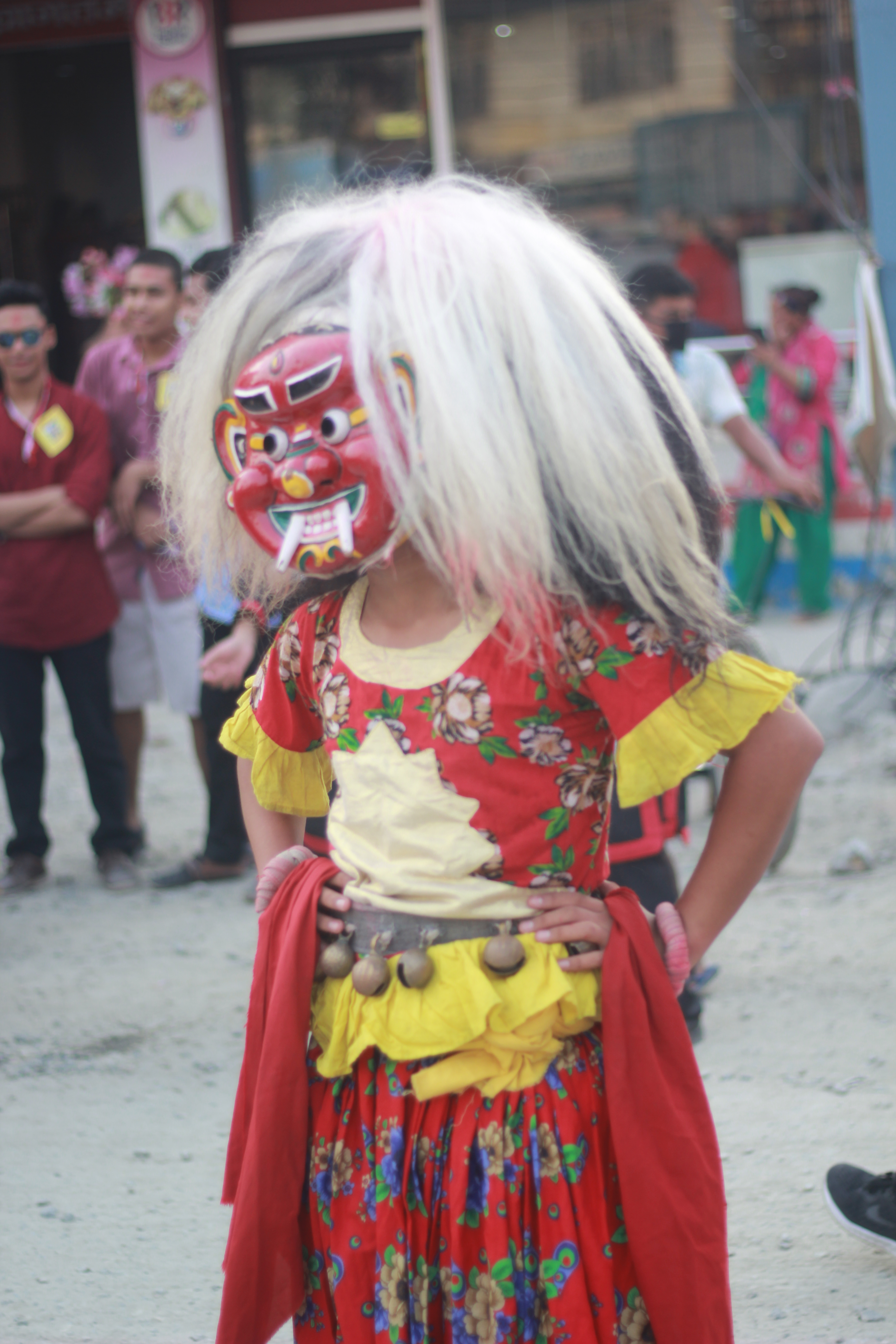 Lakhey Dance in Biratnagar.